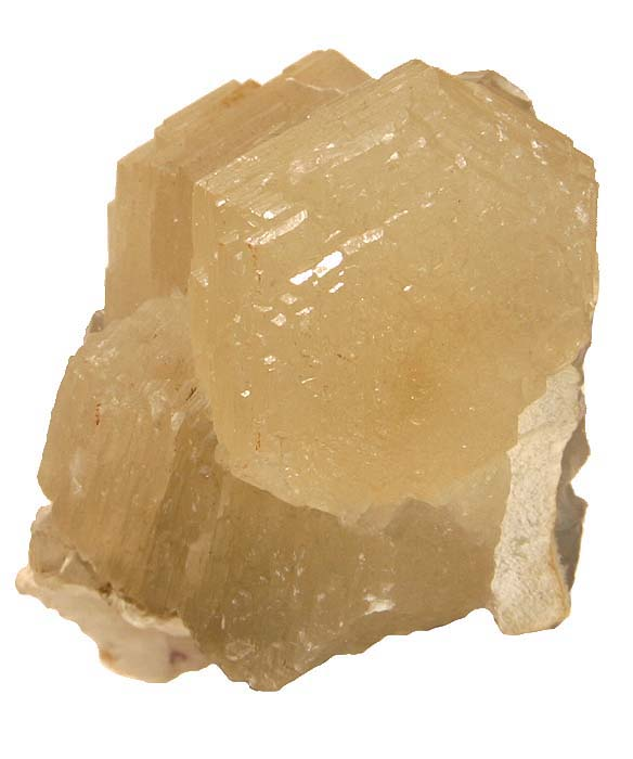 Witherite Locality: Mahoning No. 1 Mine (Minerva No. 1 Mine), Ozark-Mahoning Group, Cave-in-Rock Sub-District, Illinois - Kentucky Fluorspar District, Hardin County, Illinois, USA (Locality at ) This is a fine example of a classic Illinois witherite, in a nice size. While they can be really dull, this one shows a fine luster bouncing off the stepped faces. (Fluorescent LW and SW, white.) 4.9 x 3.7 x 3.2 cm